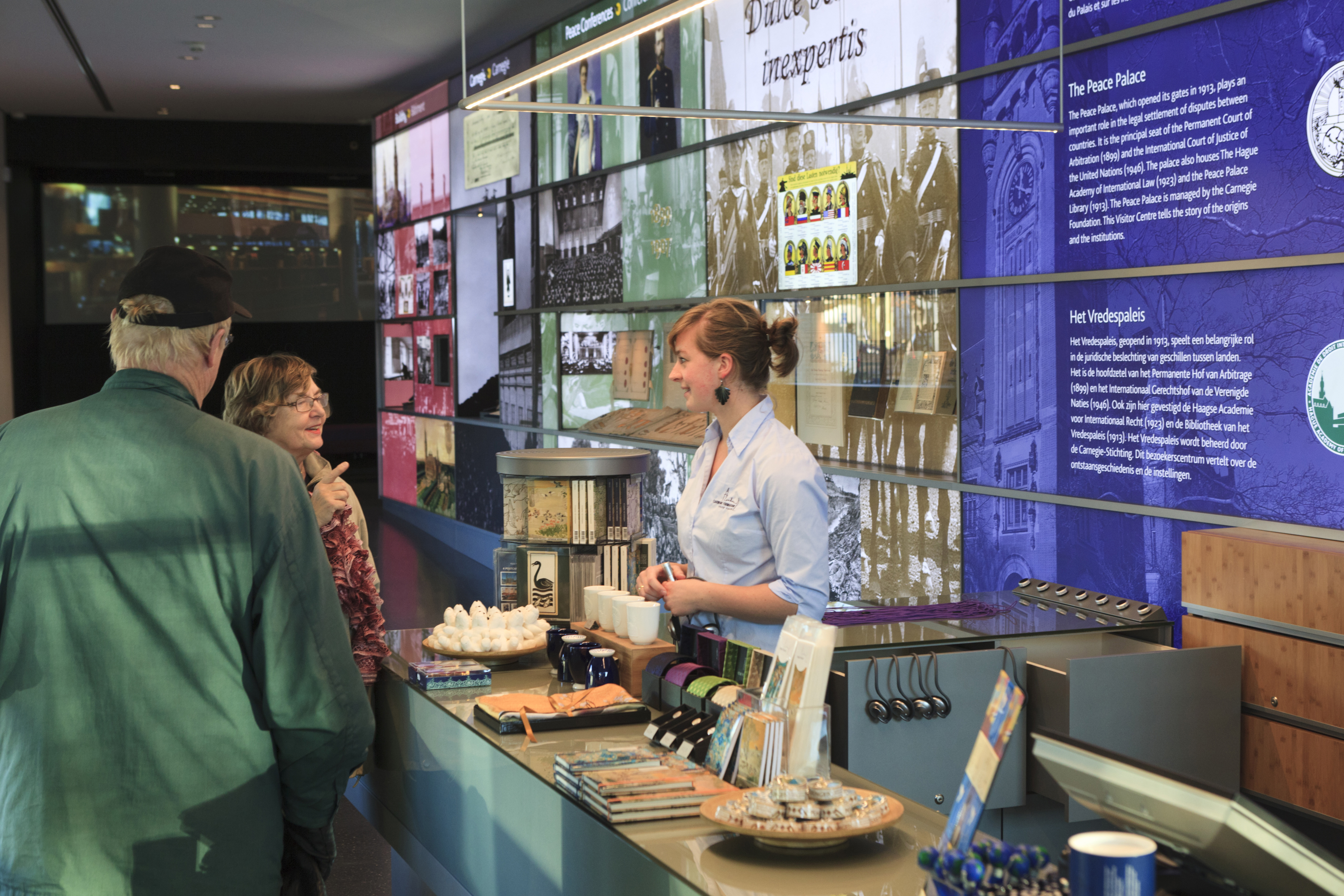 People in the Visitors Centre learn about the history of the Peace Palace as well as the institutions housed in the palace. In the Visitors Centre a permanent exhibition and a short film are shown; The Hague, Netherlands